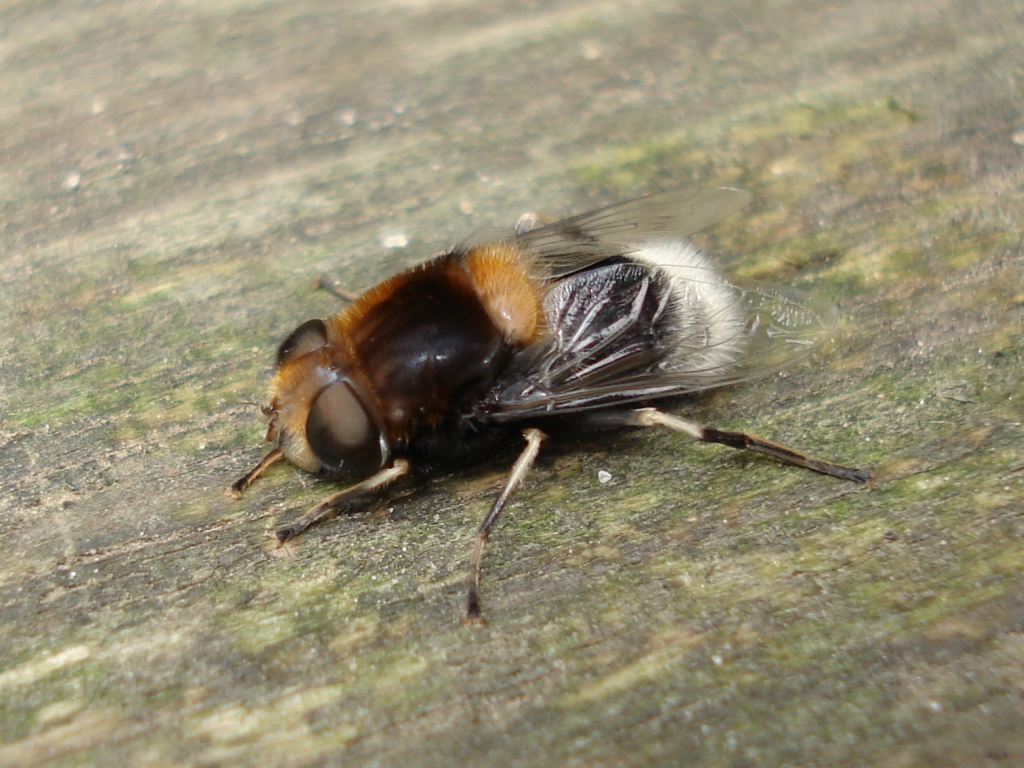 Eristalis intricaria